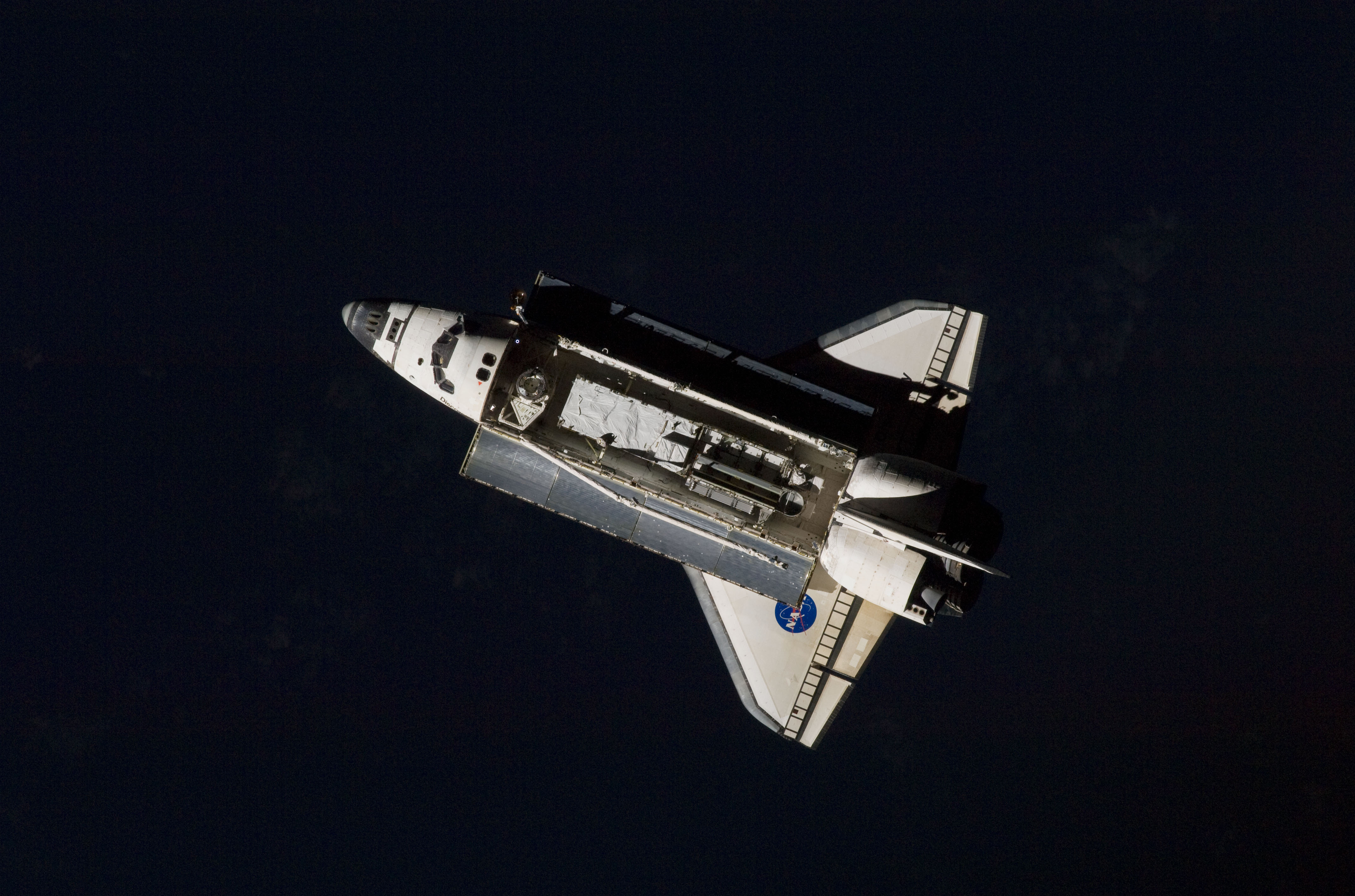 Backdropped by the blackness of space, Space Shuttle Discovery is featured in this image photographed by an Expedition 18 crewmember on the International Space Station during rendezvous and docking operations. Before docking with the station, astronaut Lee Archambault, STS-119 commander, flew the shuttle through a Rendezvous Pitch Maneuver or basically a backflip to allow the space station crew a good view of Discovery's heat shield.